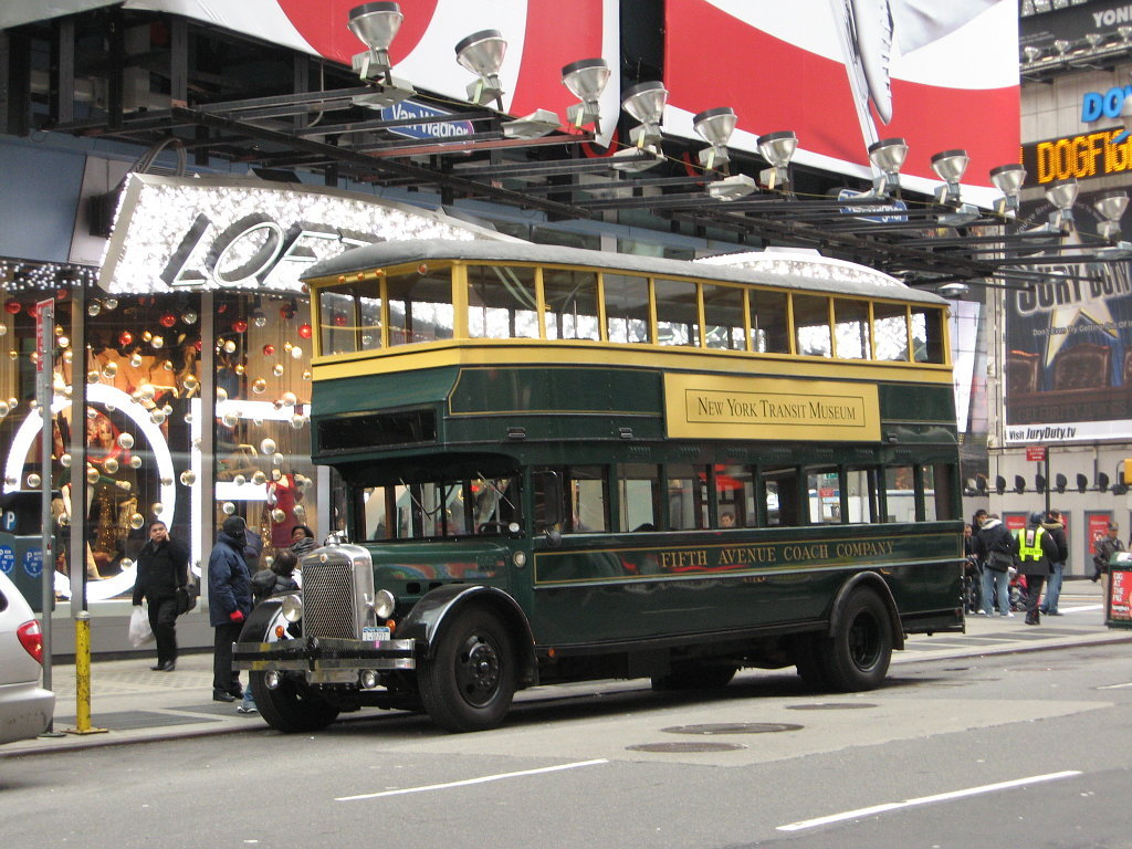 Fifth Avenue Coach Company Yellow Coach #1263, a 1931 model, is on display in at Times Square.